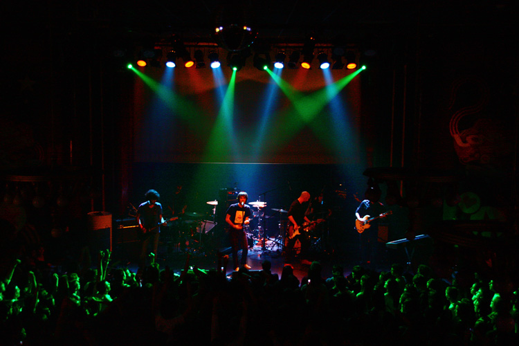 Spanish band Vetusta Morla